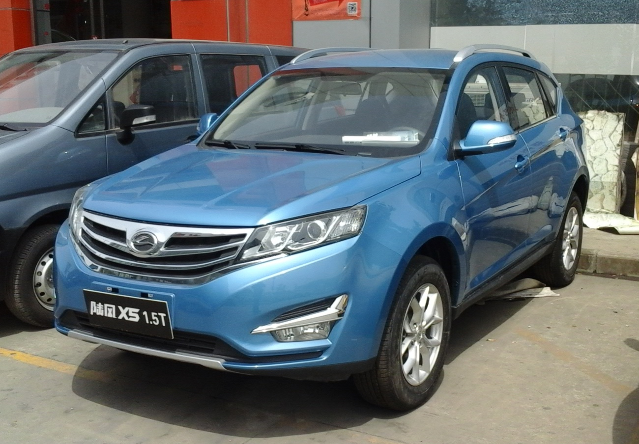 Landwind X5 Plus photographed in Xi'an, Shaanxi province, China.